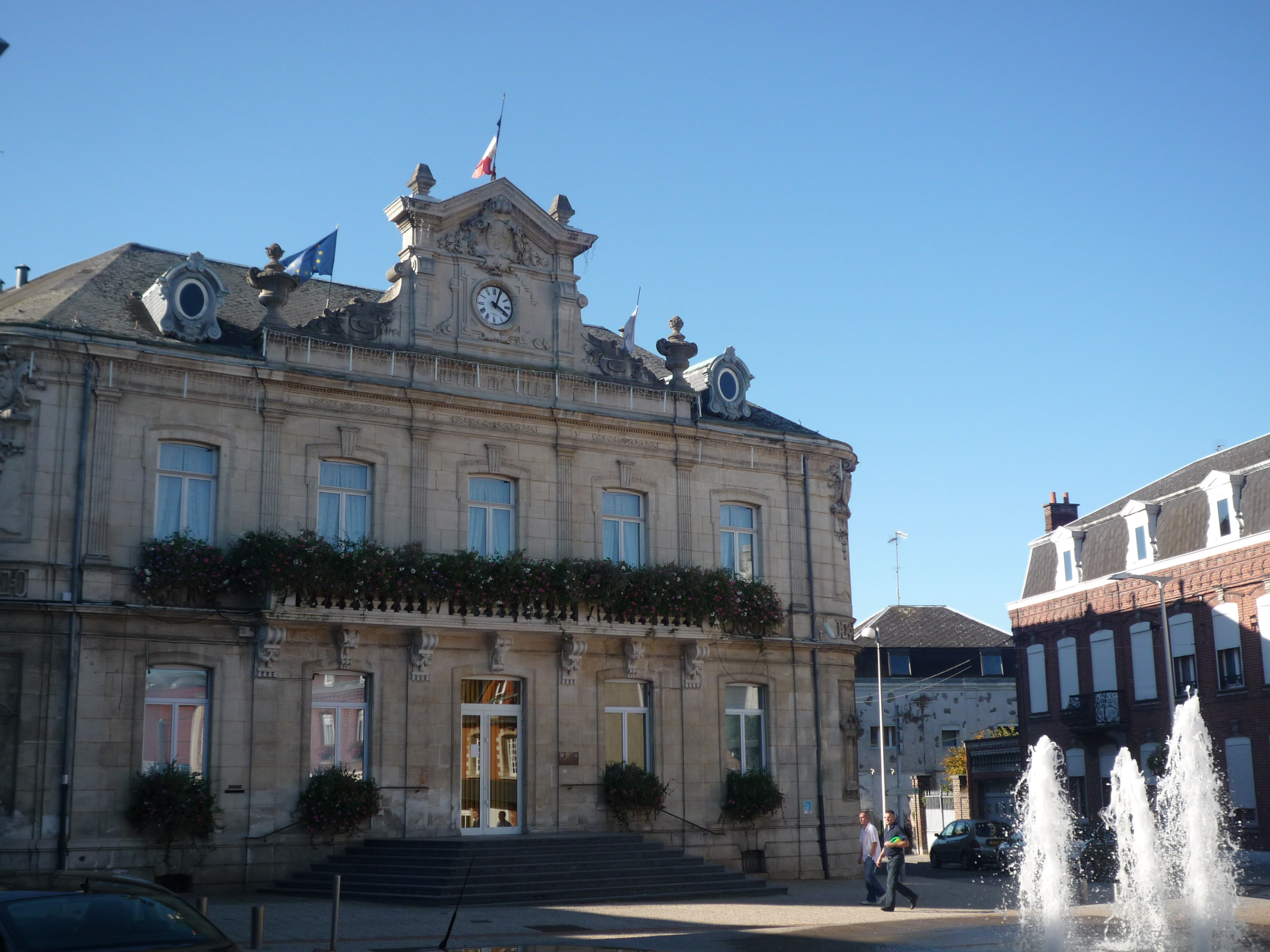 Caudry, Nord-Pas-de-Calais, France.